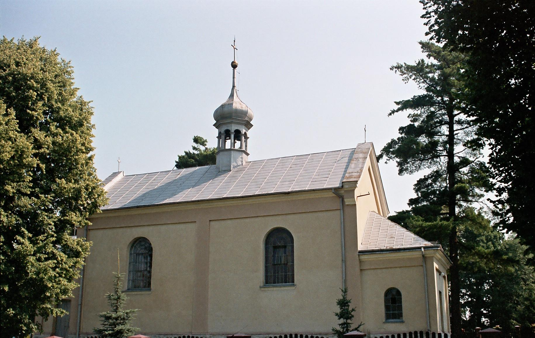 Church in Siedliska